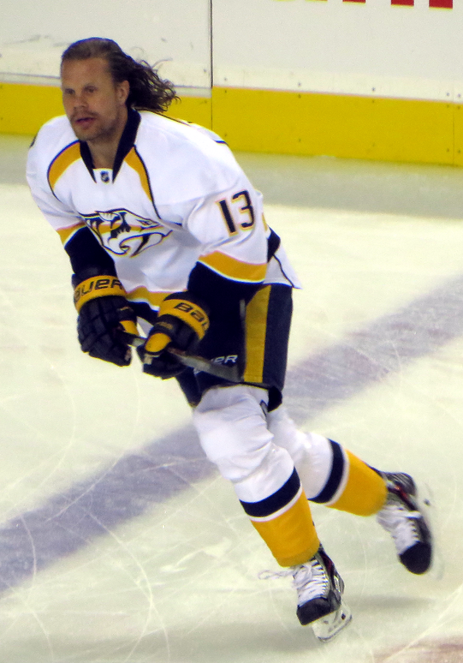 Nashville Predators forward Olli Jokinen prior to a National Hockey League game against the Calgary Flames.